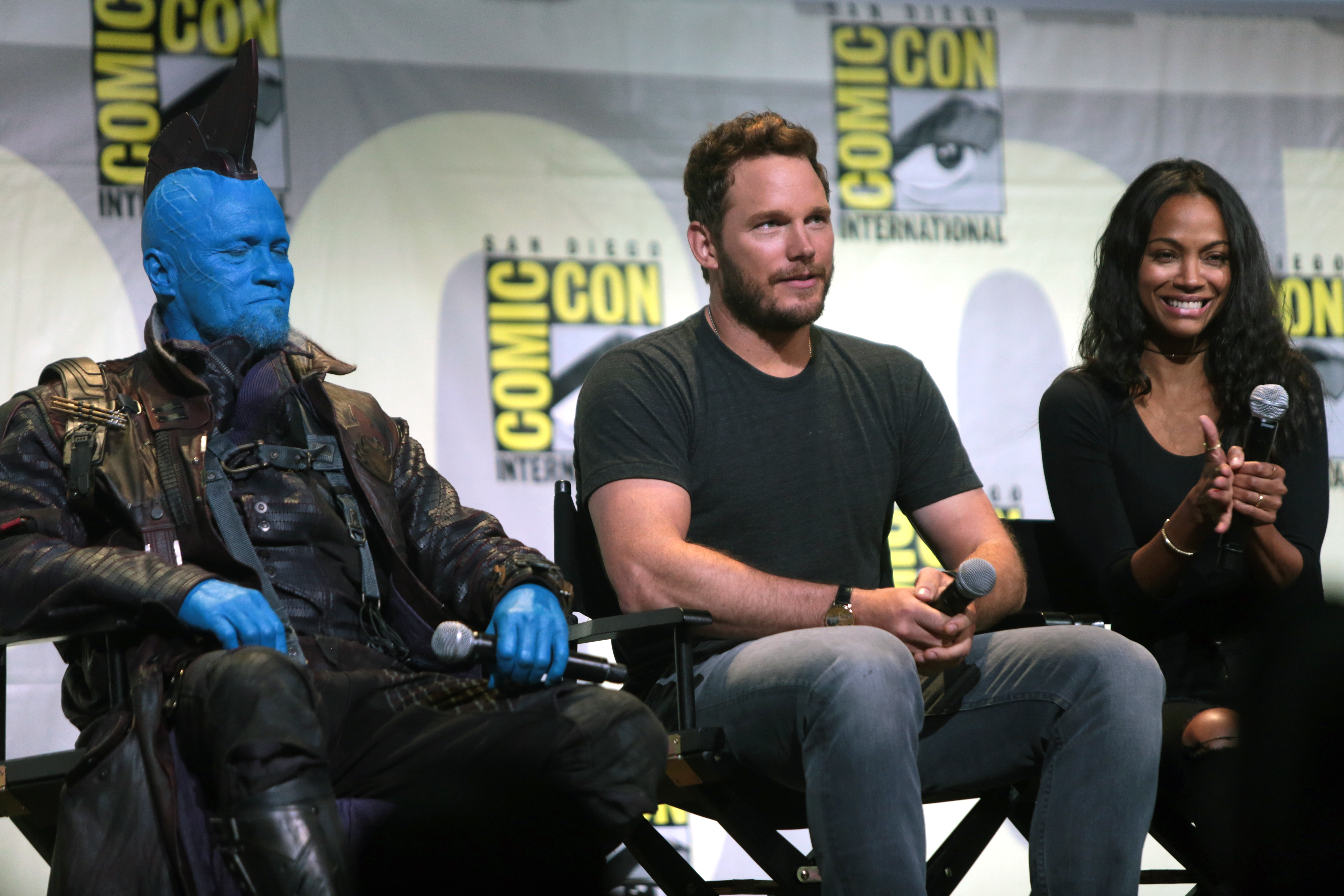 Michael Rooker, Chris Pratt and Zoe Saldana speaking at the 2016 San Diego Comic Con International, for "Guardians of the Galaxy Vol. 2", at the San Diego Convention Center in San Diego, California.